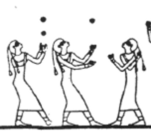 Ancient Egyptian picture of jugglers, seen in the third row